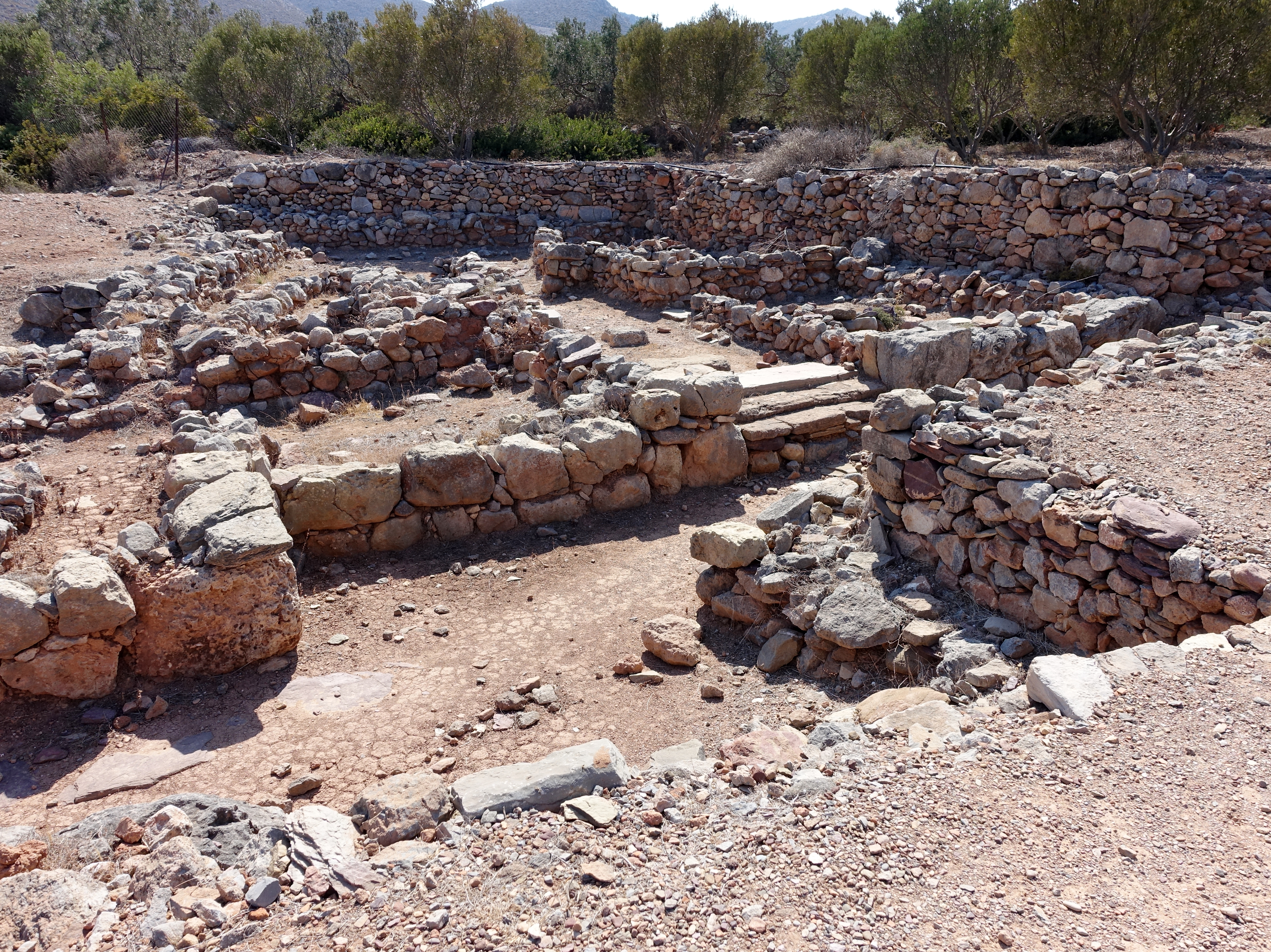 House Ny (Ν) of the archaeological site of Roussolakkos (Ρουσσόλακκος) near Palekasto, municipality Sitia, Crete, Greece